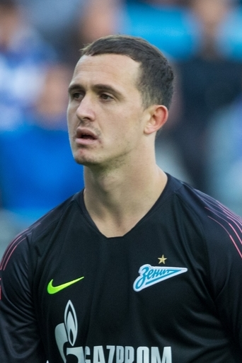 30.08.2018. Норвегия, Мольде, «Мольде». Лига Европы УЕФА 2018/19, раунд плей-офф, «Мольде» — «Зенит».